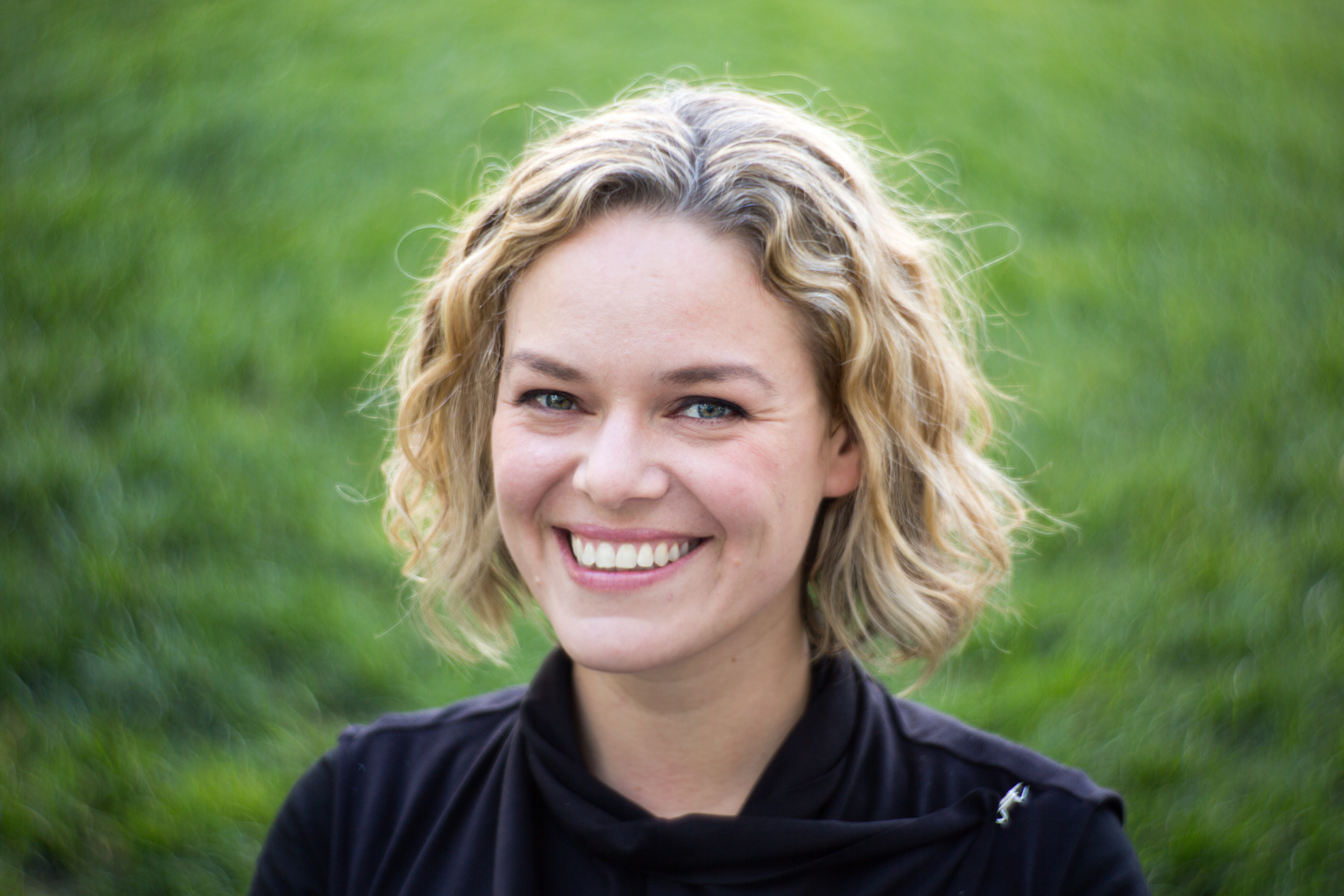 Katherine Maher, Executive Director of the Wikimedia Foundation. Photographed March, 2016 with a Lomography Petzval lens